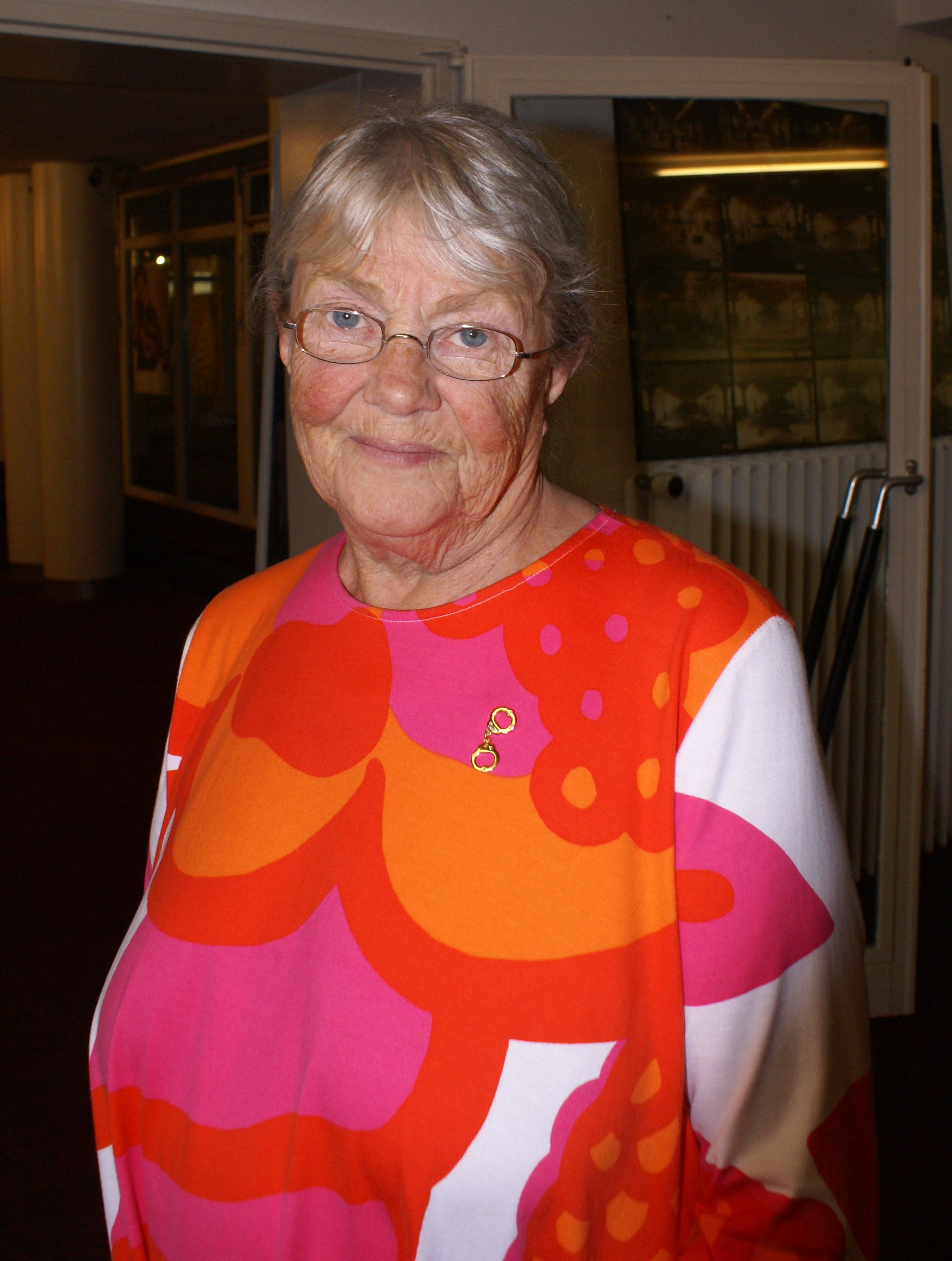 Maj Sjöwall at a crime fiction festival in Bremen, Germany, in September 2009